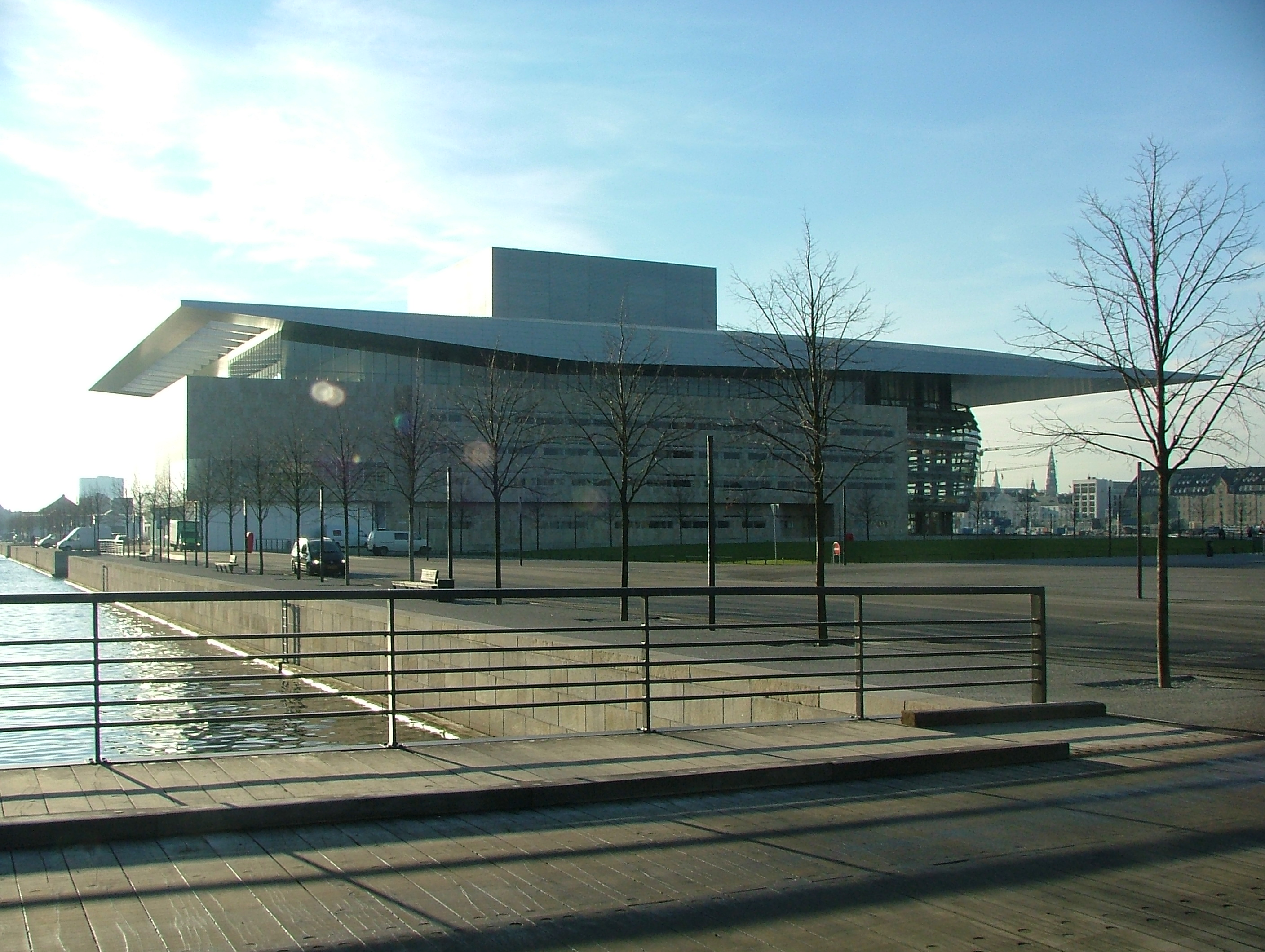 Photos from the former Naval Base Copenhagen: New Operahouse at the old Naval Base Photo by Jan Kronsell, 2005